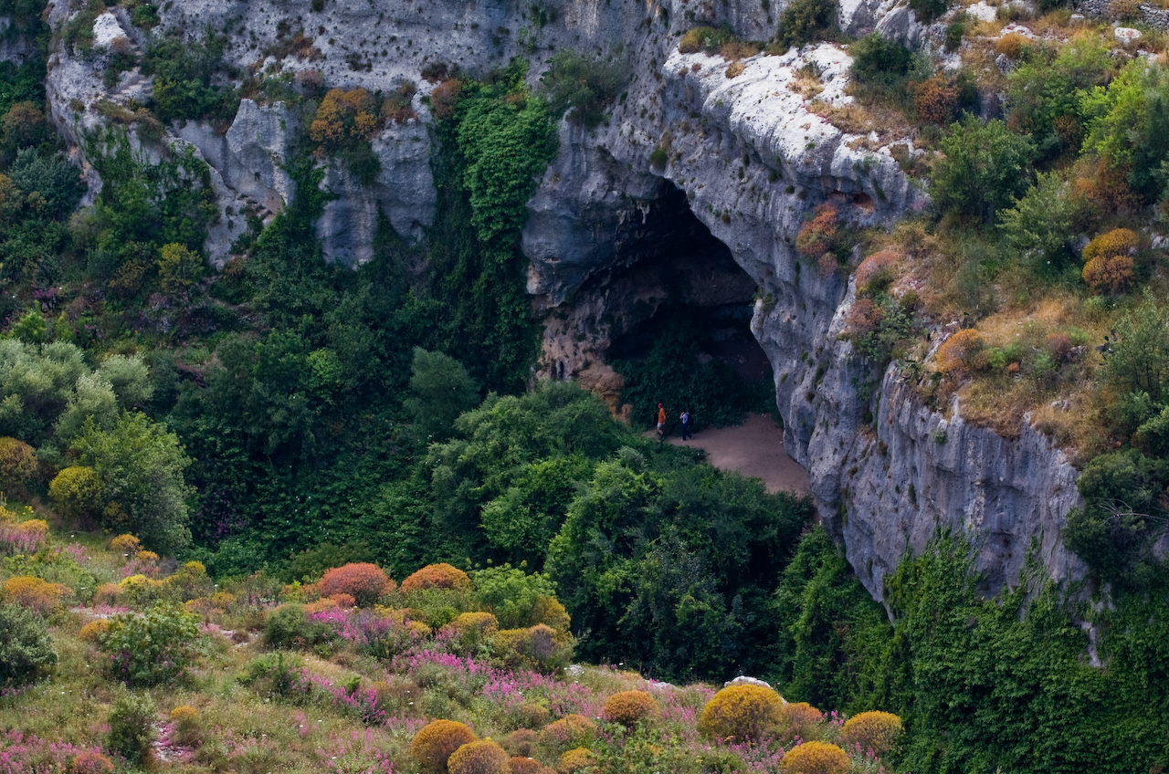 La grotta dei pipistrelli